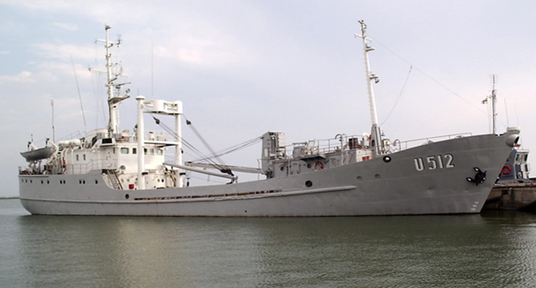 Ukrainian auxiliary ship U512 Pereyaslav